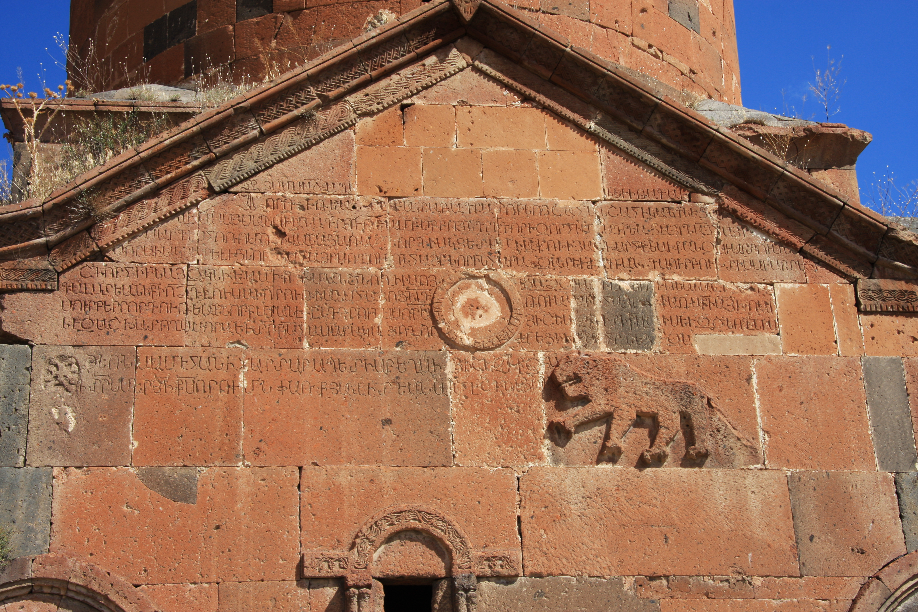 photo by Arthur Papoyan 59/8